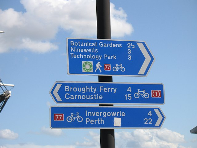 Cycle route signpost National Cycle Network route 77 and 1 signposts beside RMS Discovery. None of the signs point south!